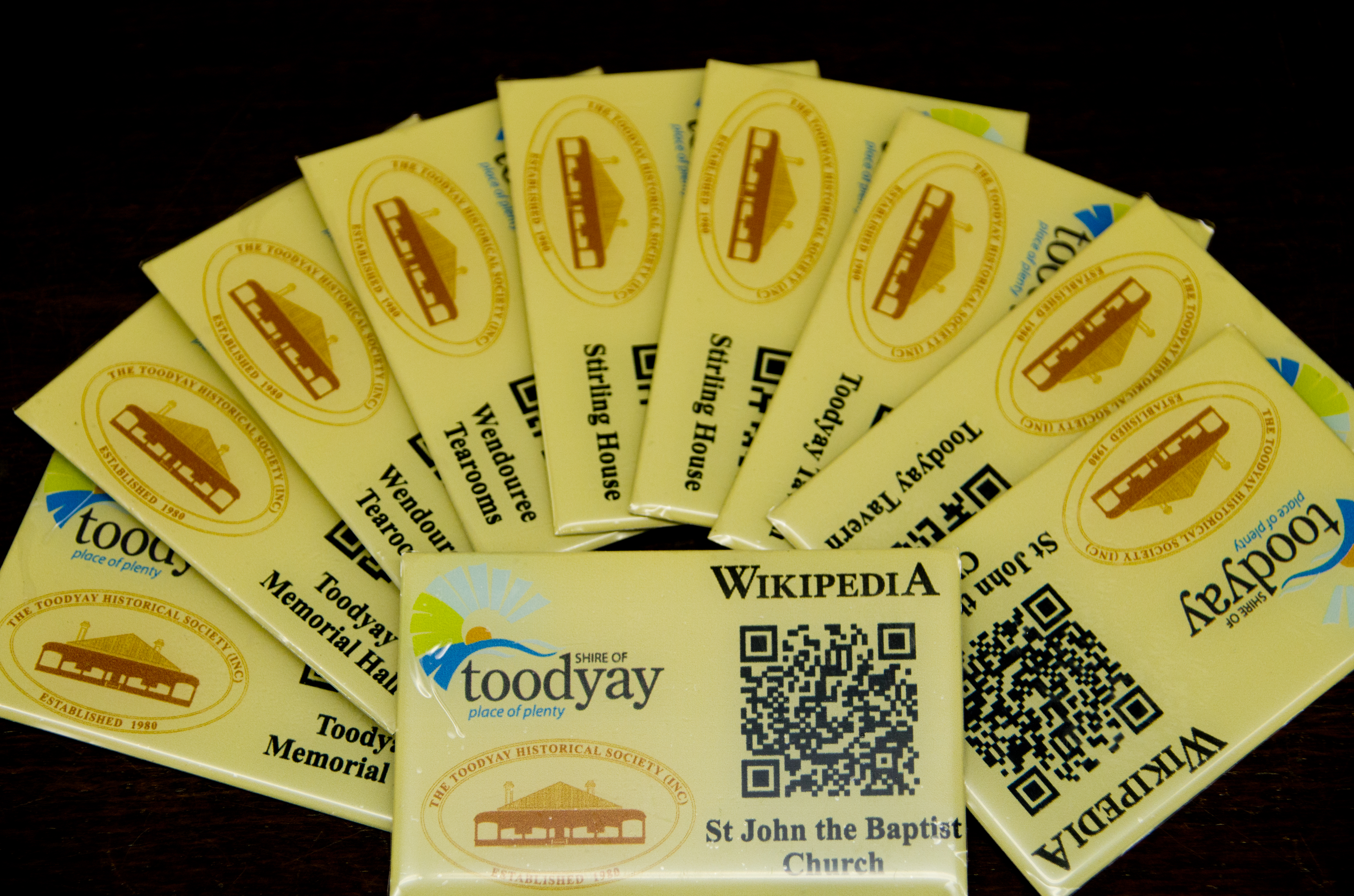 some of the stage one plates for Toodyaypedia prior to installation. Plate design was by User:Gnangarra logos on the plates are those of the project partners. The QR code was created using QRpedia